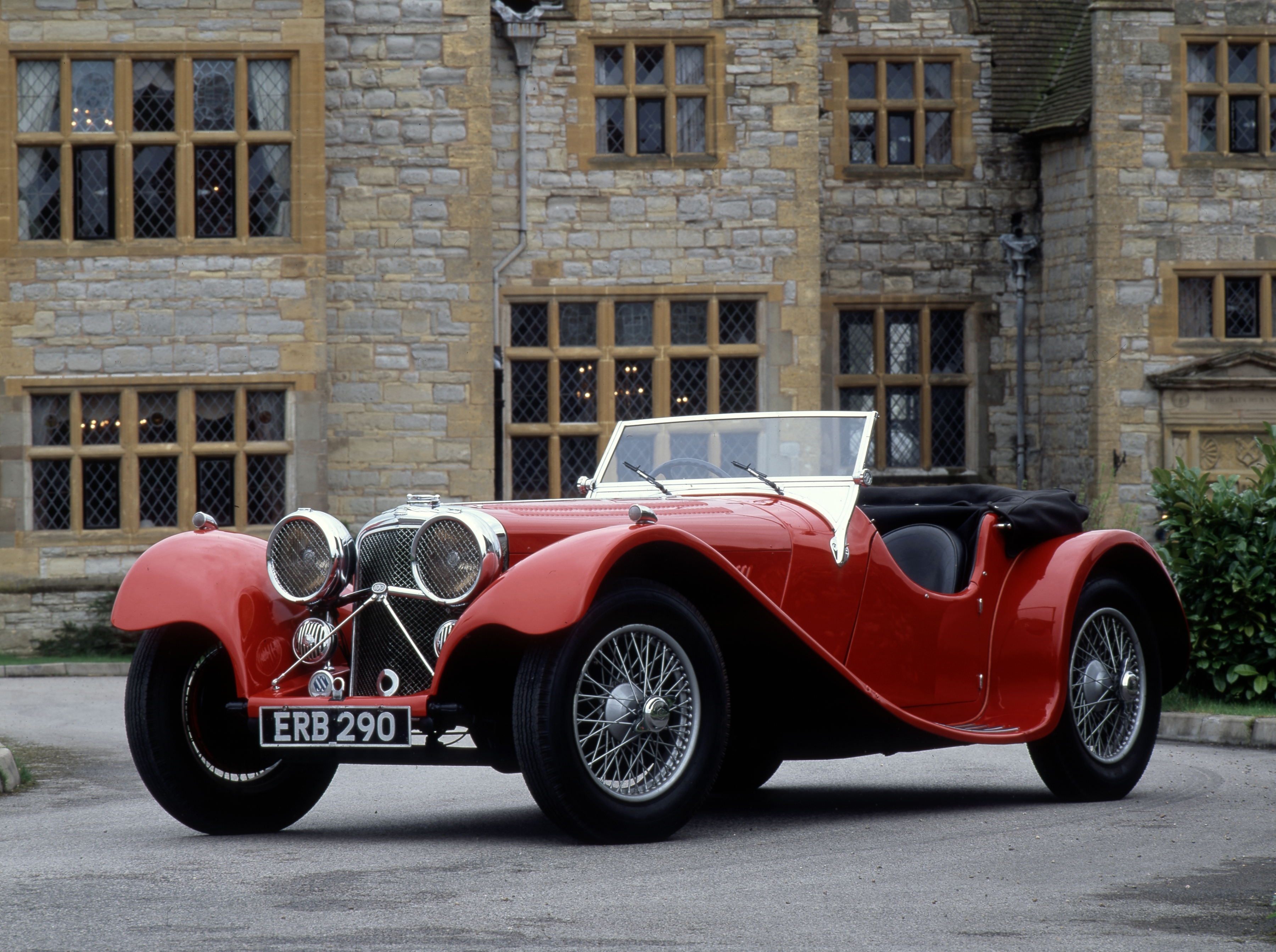 Expert motoring fans including Brian Johnson of rock band AC/DC, Goodwood's Lord March and Jaguar's Director of Design Ian Callum have chosen their 'perfect ten' - the most important and iconic Jaguar cars of all time. The list comes ahead of the worldwide reveal of Jaguar's all-new sports saloon, the Jaguar XE. Discover more